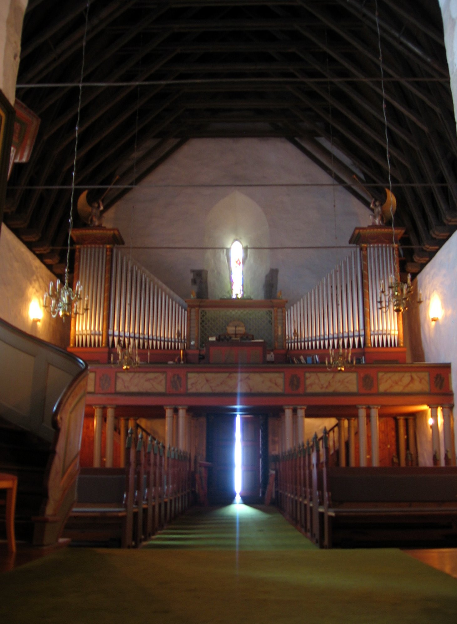 Inside Aurland's church...